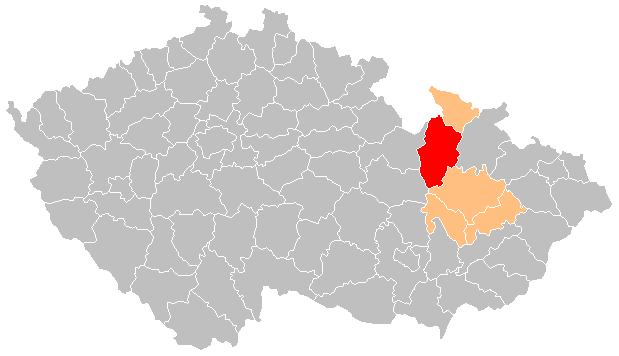 District of Šumperk